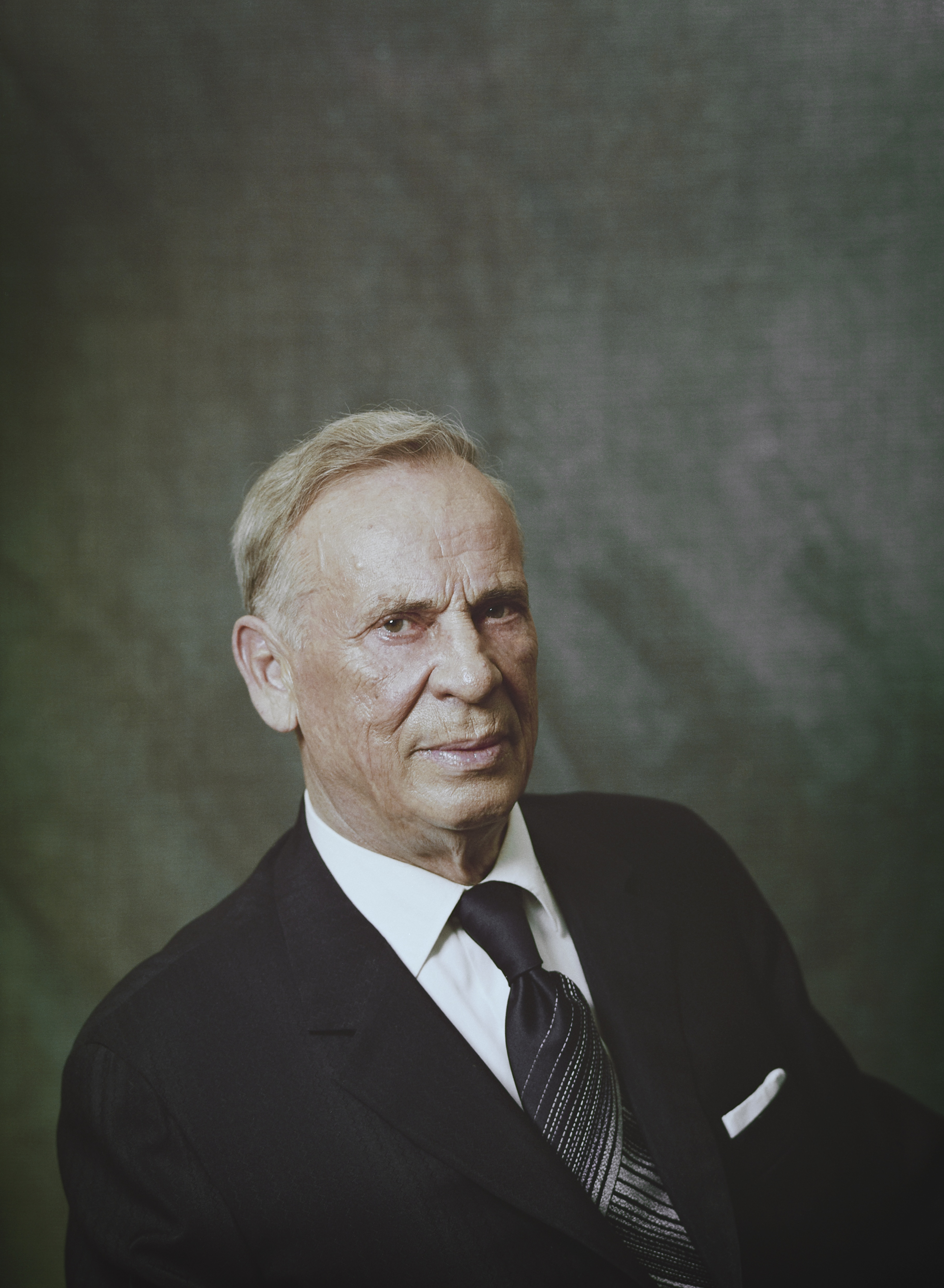 Photograph of the Finnish director general Ilmari Helanto (1907–1979).